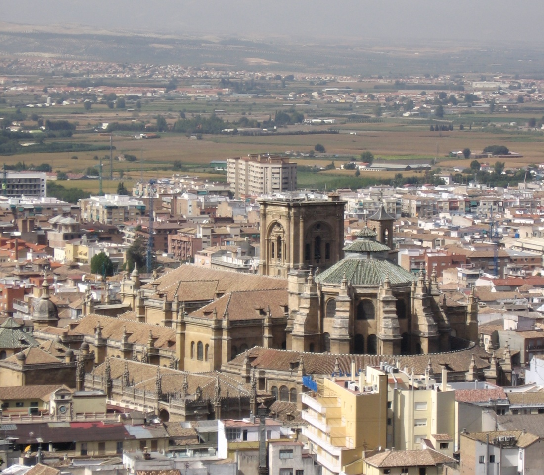 Granada, Spain - cathedral (view from Alhambra)